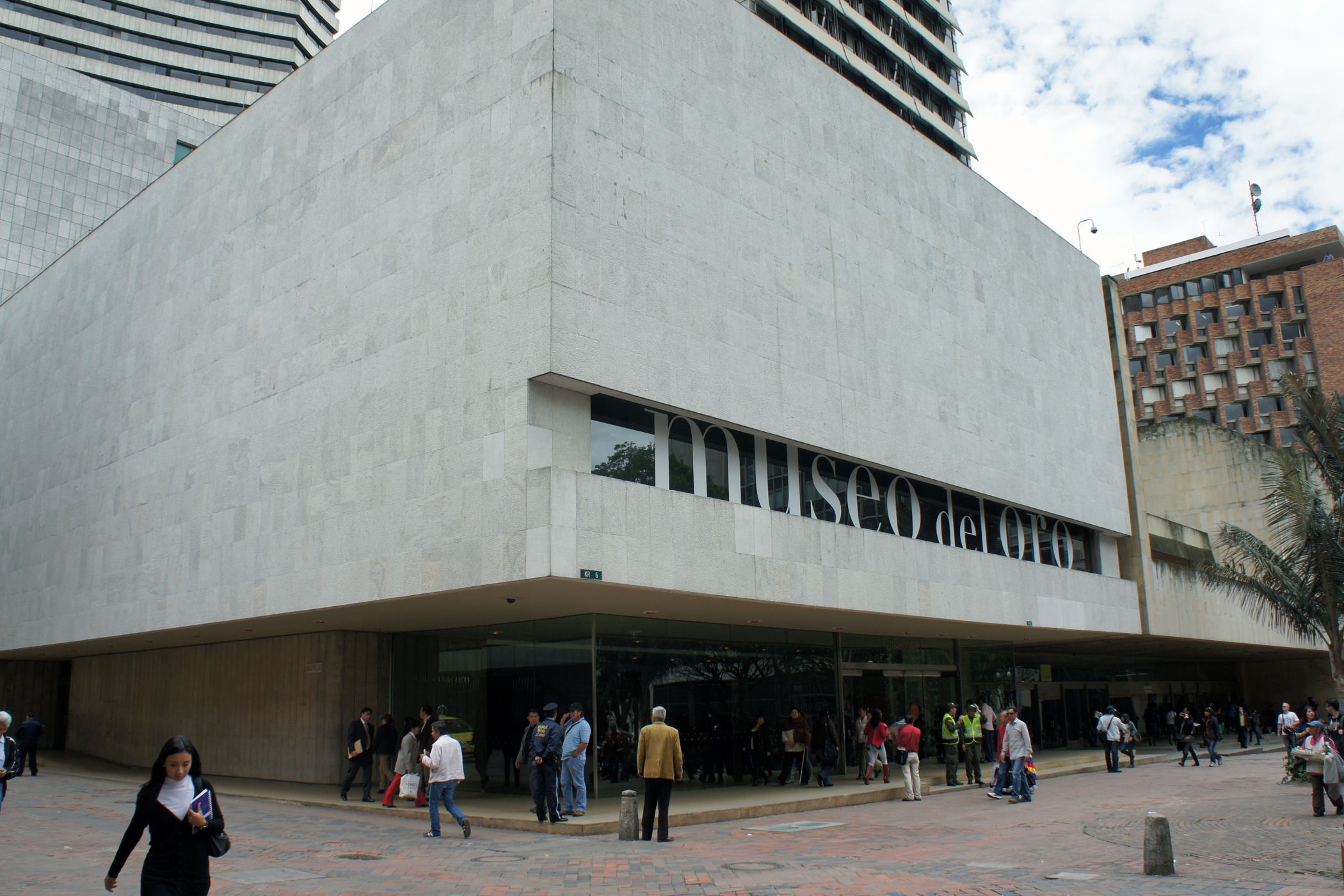 Gold Museum, Bogota, Colombia